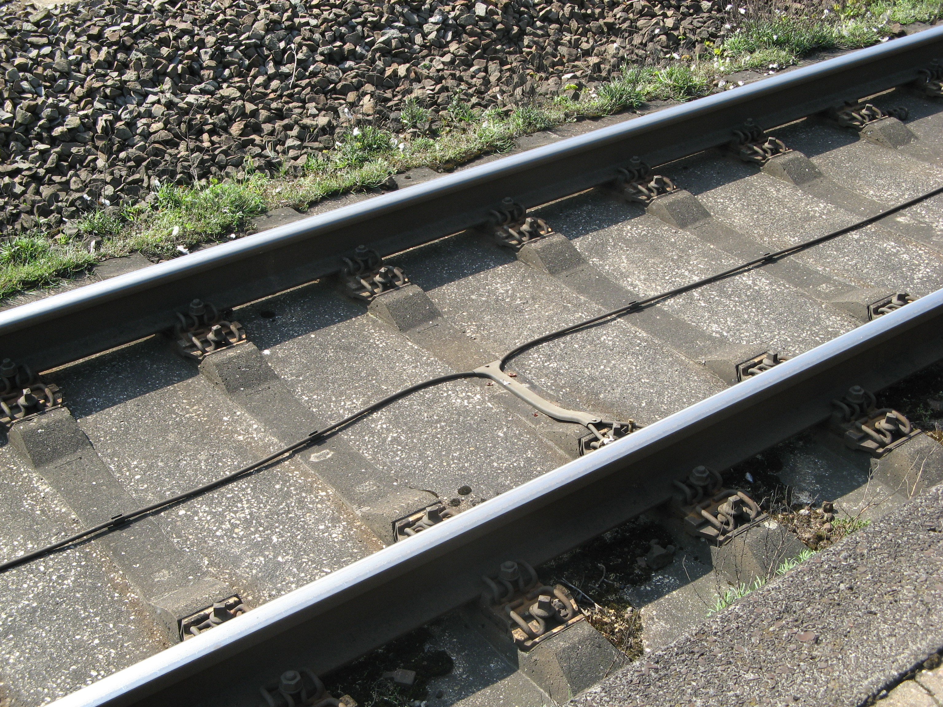 Rails and Linienzugbeeinflussung on slab track at the train station of Rheda-Wiedenbrück, Germany.